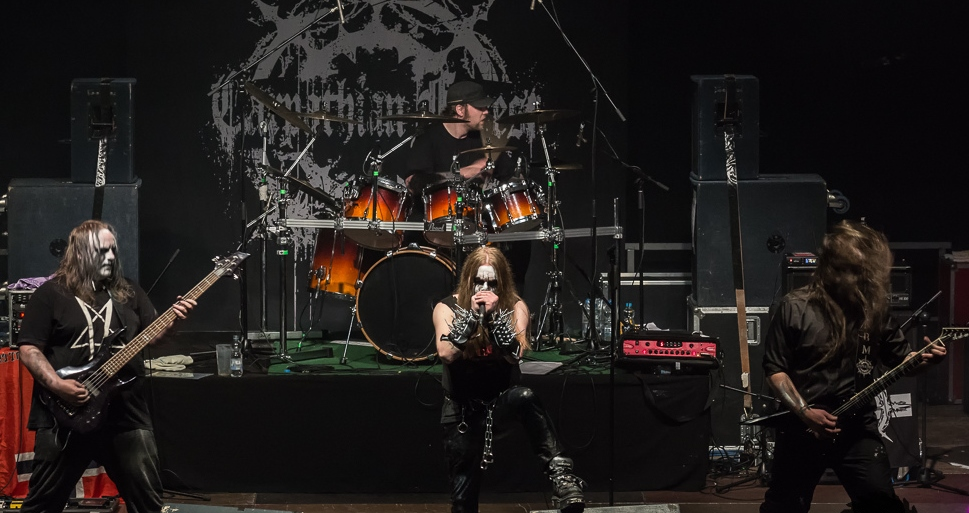 Carpathian Forest performing live at Ragnaroek 2013